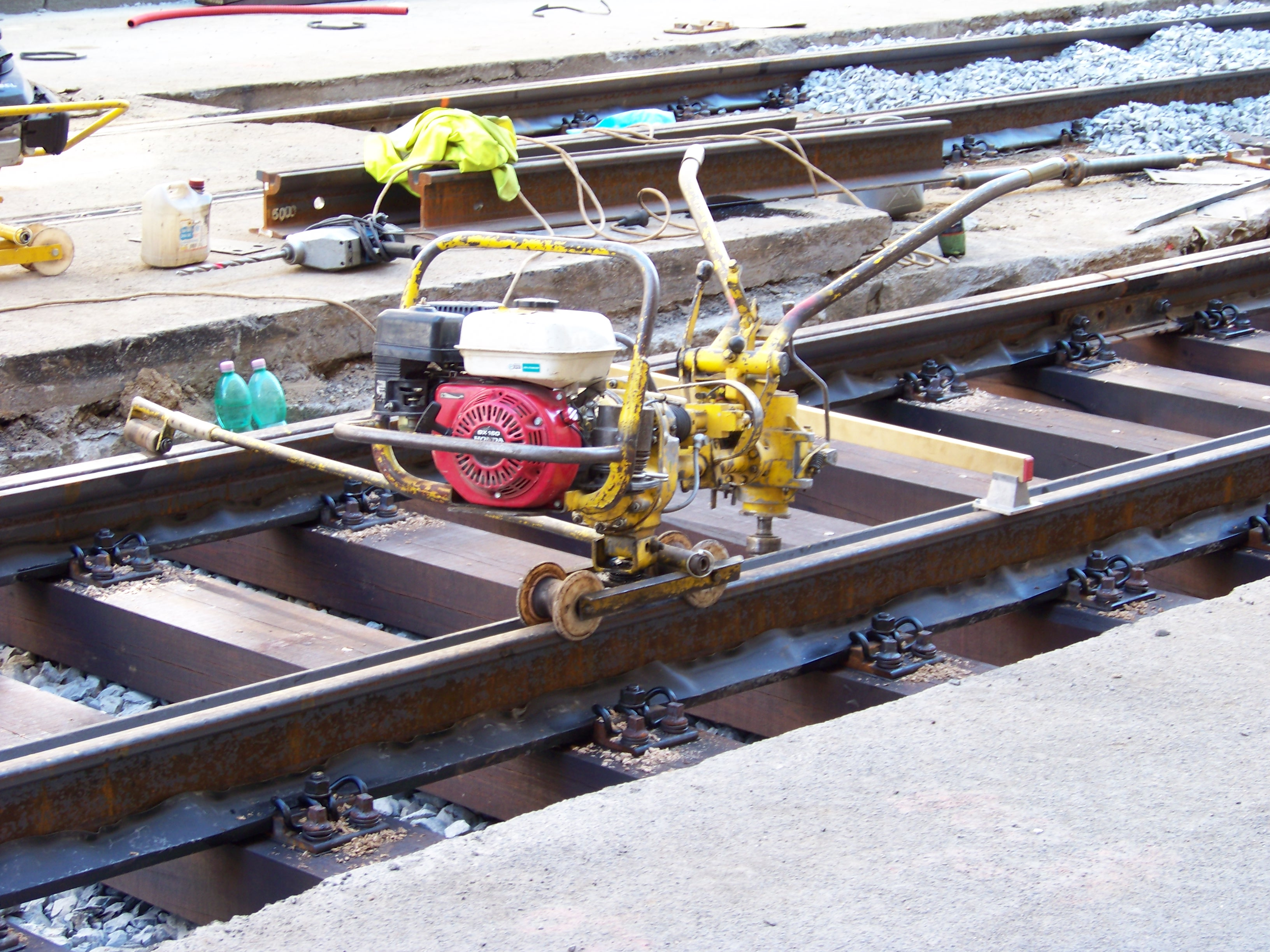 New Town, Prague, the Czech Republic. Spálená street, tram track reconstruction.